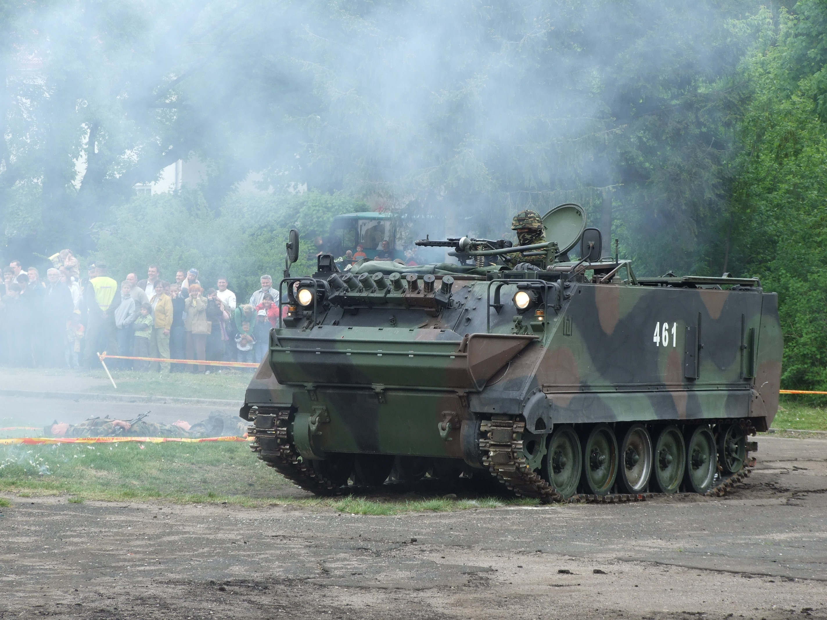 M113